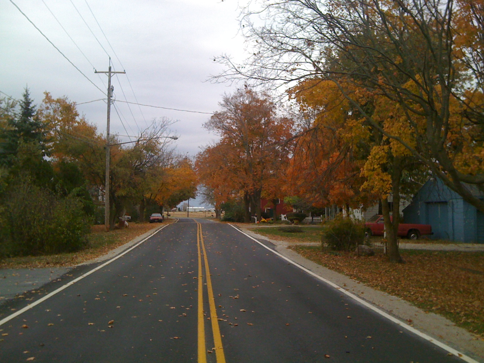 From the intersection of Rosedale Rd. and Rosedale-Milford Center Rd. at the center of Rosedale, OH looking East toward the intersection of Rosedale Rd. and Rosedale-Plain City Rd.